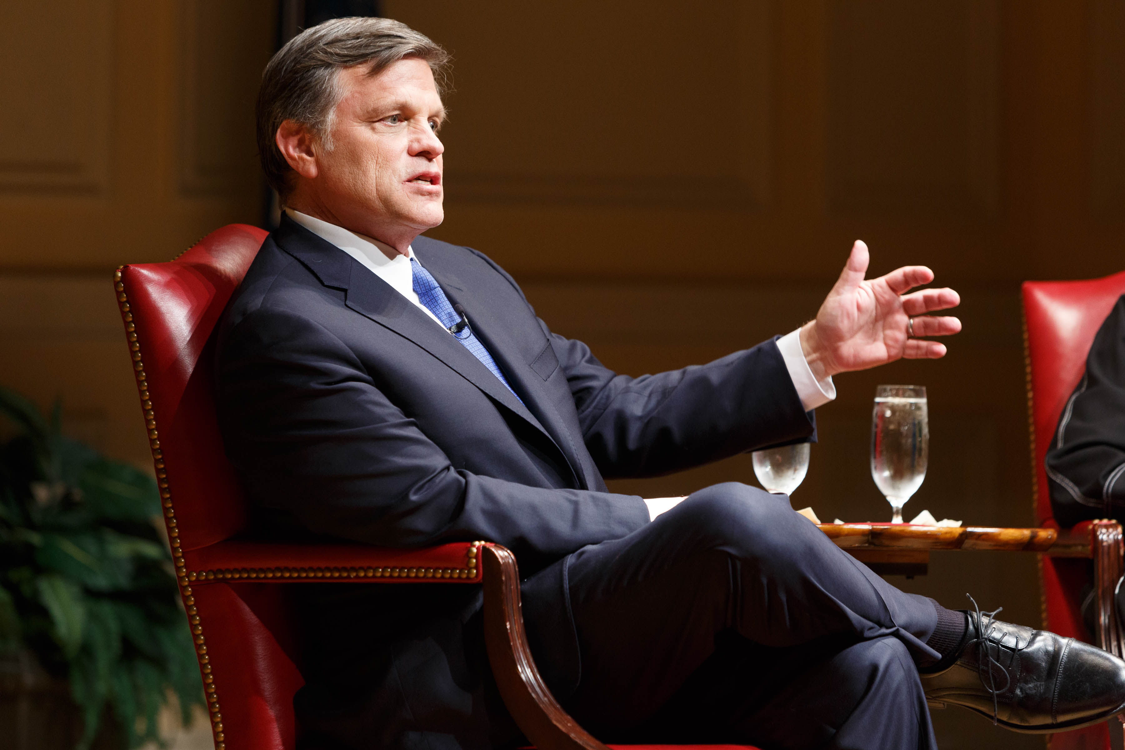 Biographer Douglas Brinkley speaks with NPR's Michel Martin at the National Book Festival Presents "Rosa Parks: The History and the Heart," February 13, 2020. Photo by Shawn Miller/Library of Congress. Note: Privacy and publicity rights for individuals depicted may apply.